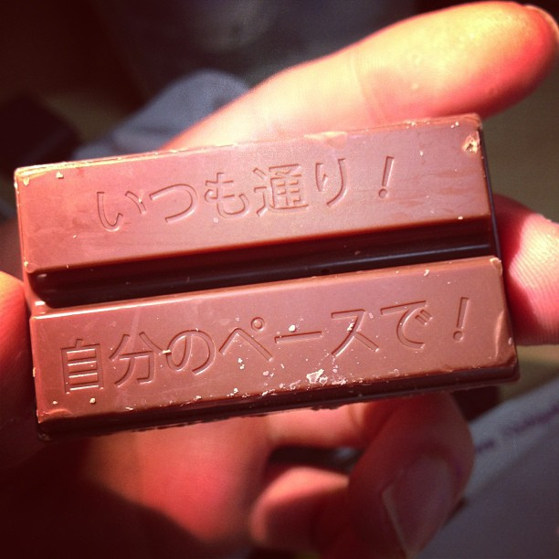 Kit Kat bar with Japanse variant of the tagline "Have a break...Have a Kit Kat!".